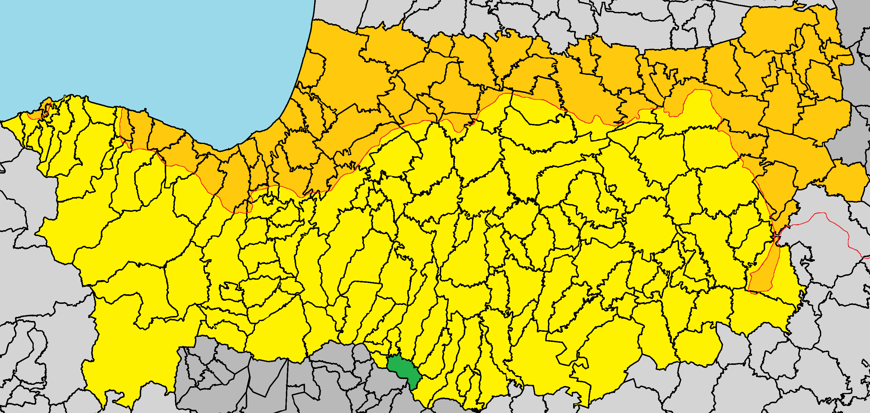 Alona, Cyprus in Nicosia District.